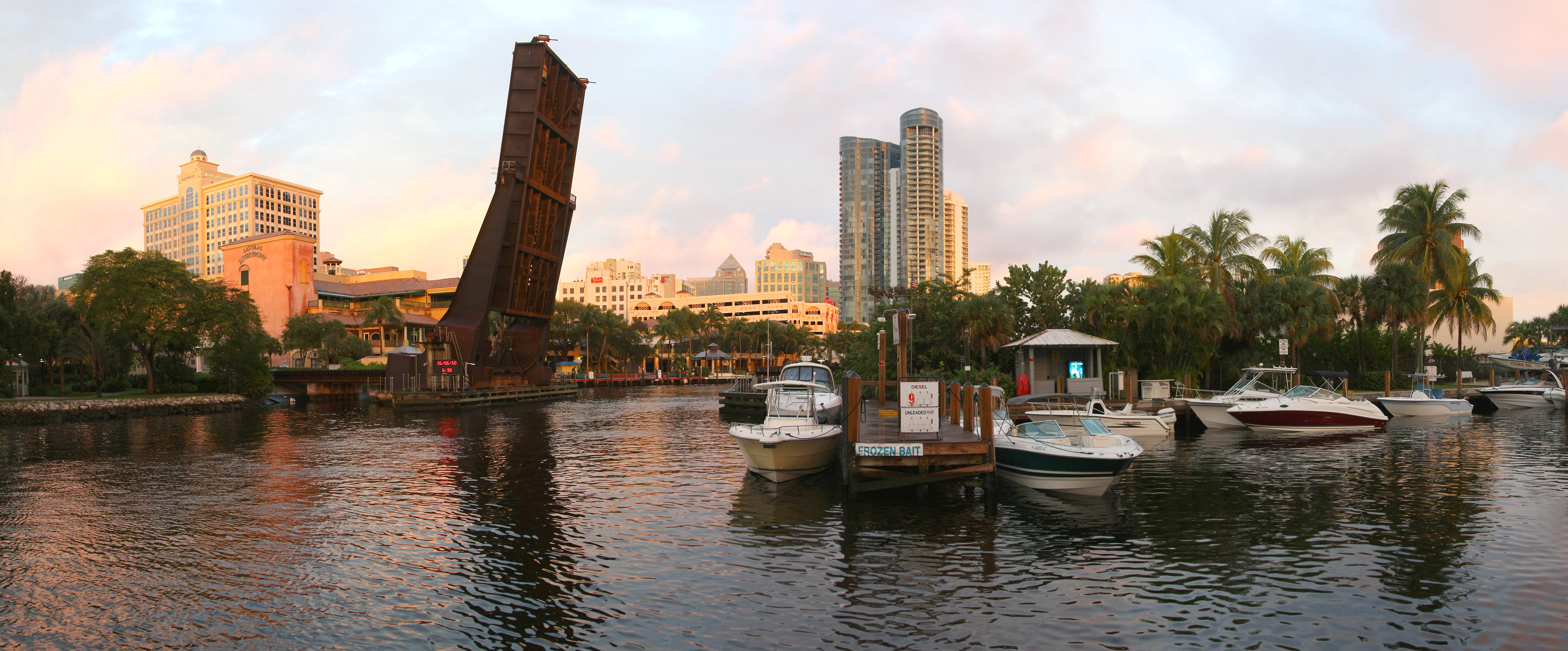 Panorama of the New River and the Fort Lauderdale skyline, Florida.